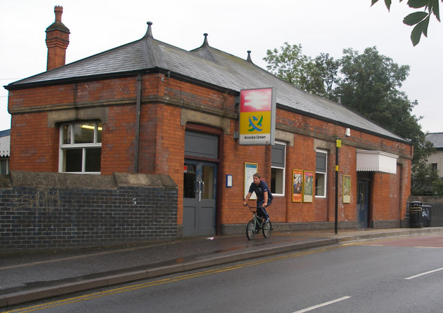 Acock's Green Railway Station, Birmingham